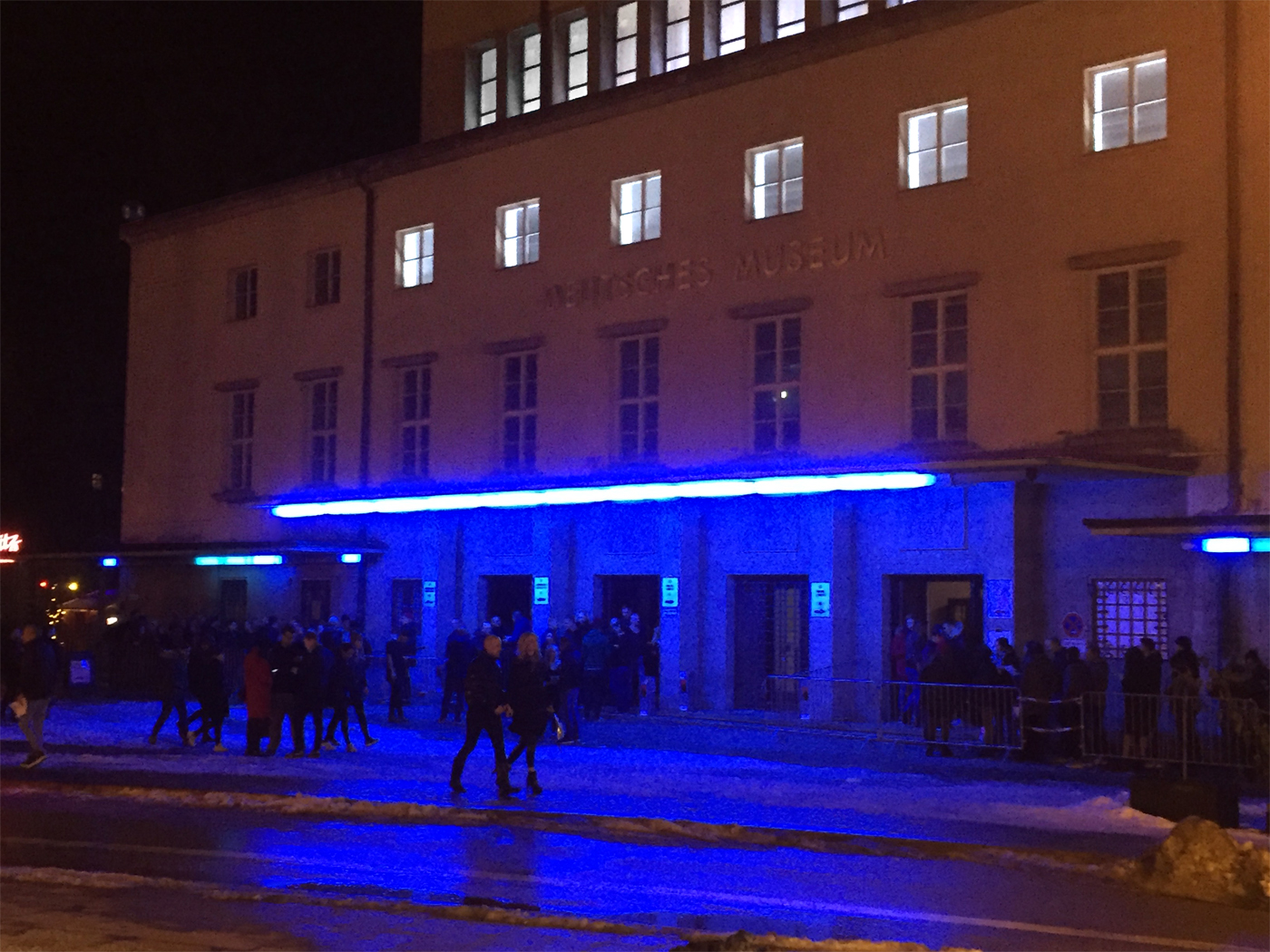 Blitz Club is a techno club in the former congress hall of the Deutsches Museum in Munich.